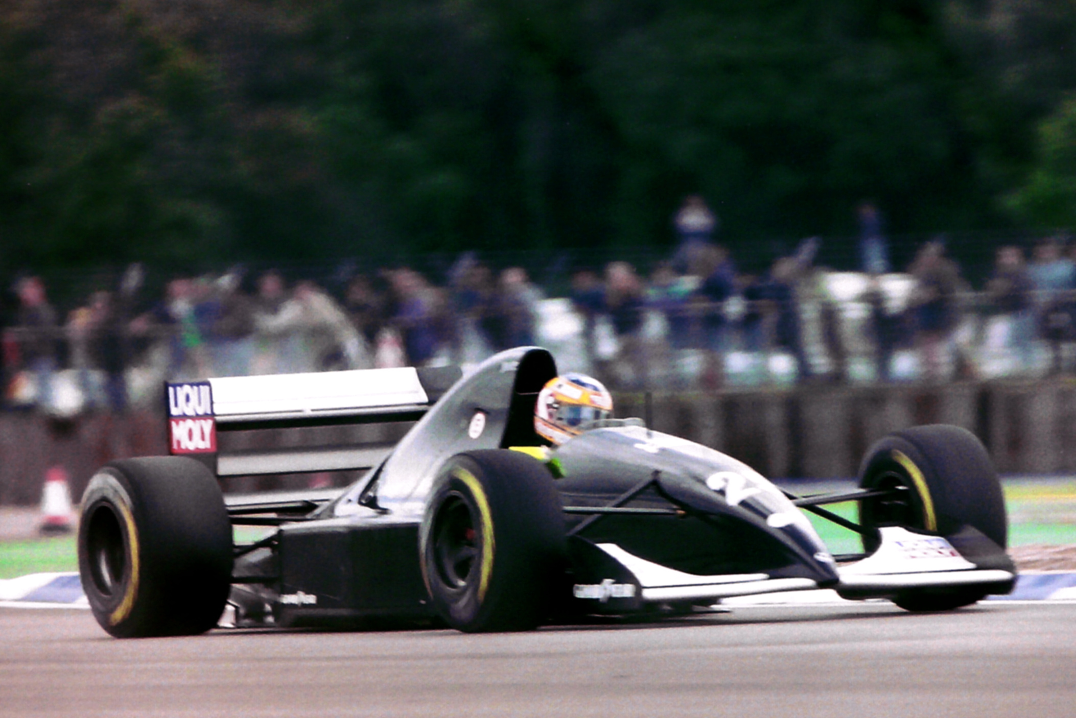 Karl Wendlinger - Sauber C12 during practice for the 1993 British Grand Prix